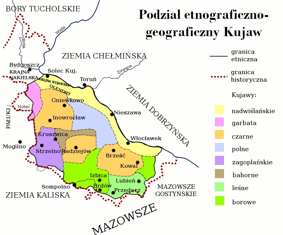 Map of Kuyavia; historic-geographic region in Poland.